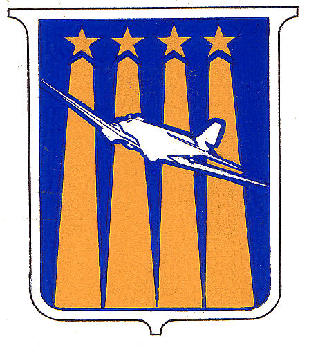 Emblem of the 62d Troop Carrier Group (World War II)